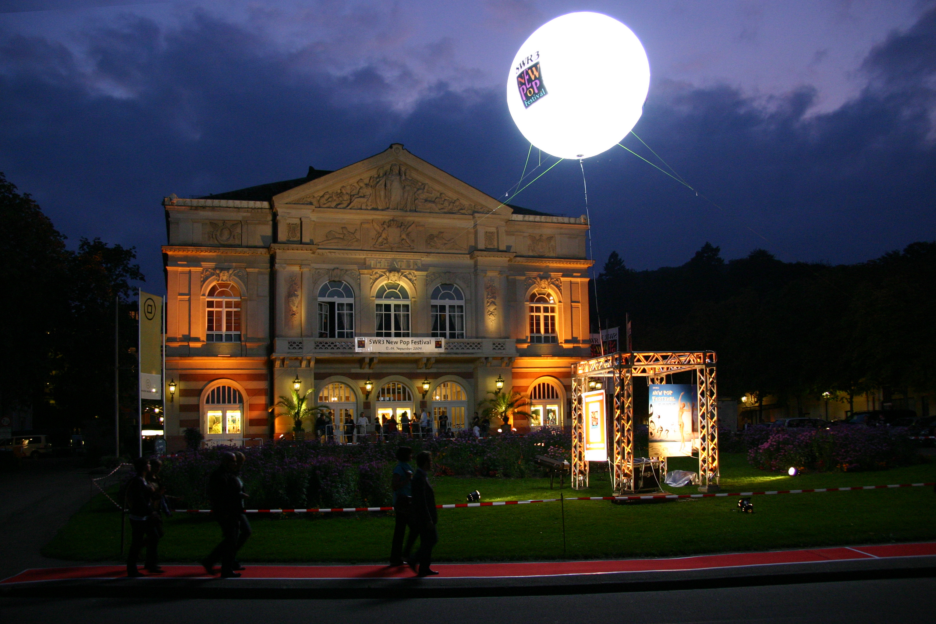 Municipal theatre Baden-Baden, Germany. SWR3-NewPop-Festival.